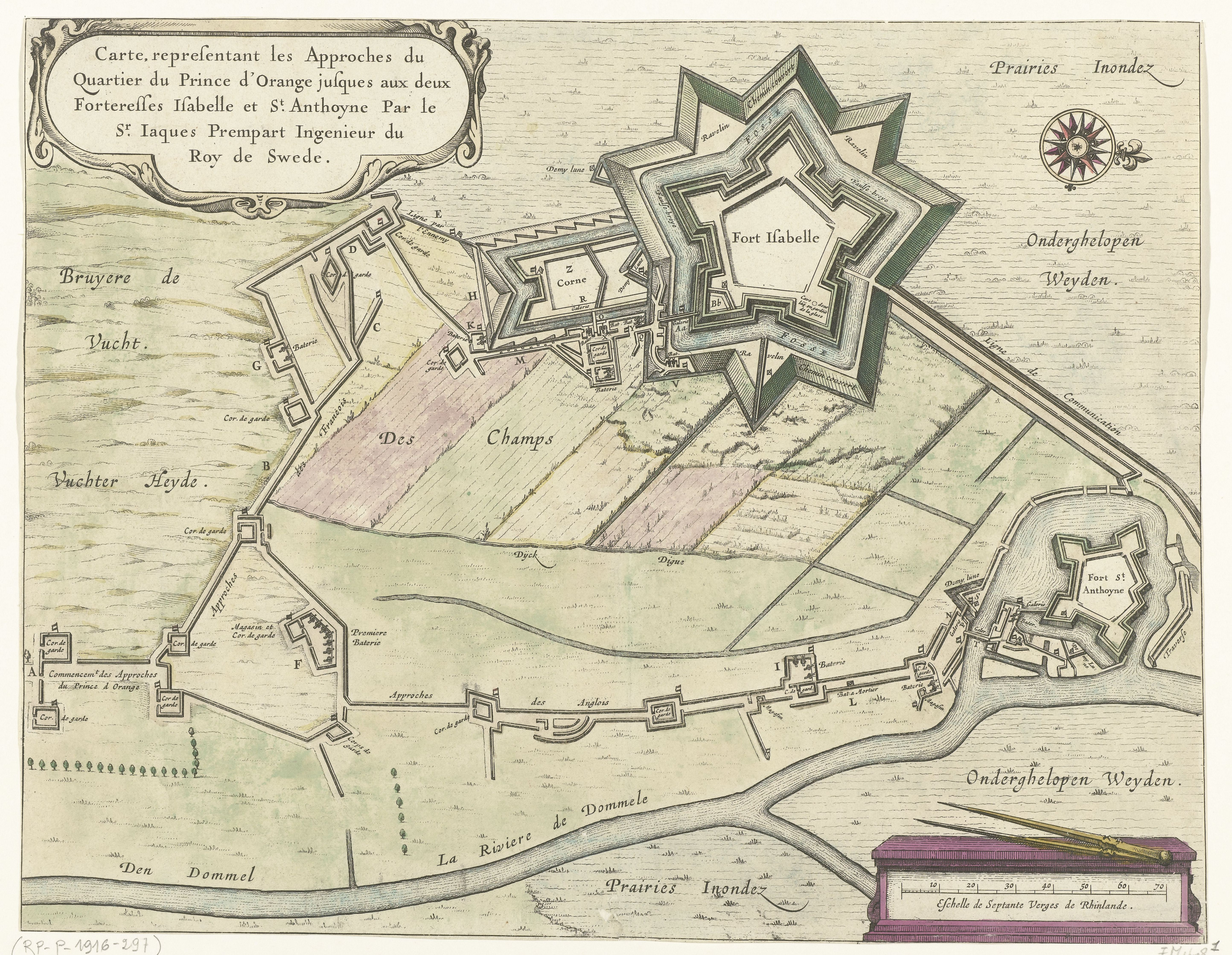 trenches approaching fort Isabella and Sint-Anthonie during the siege of Den Bosch, 1629